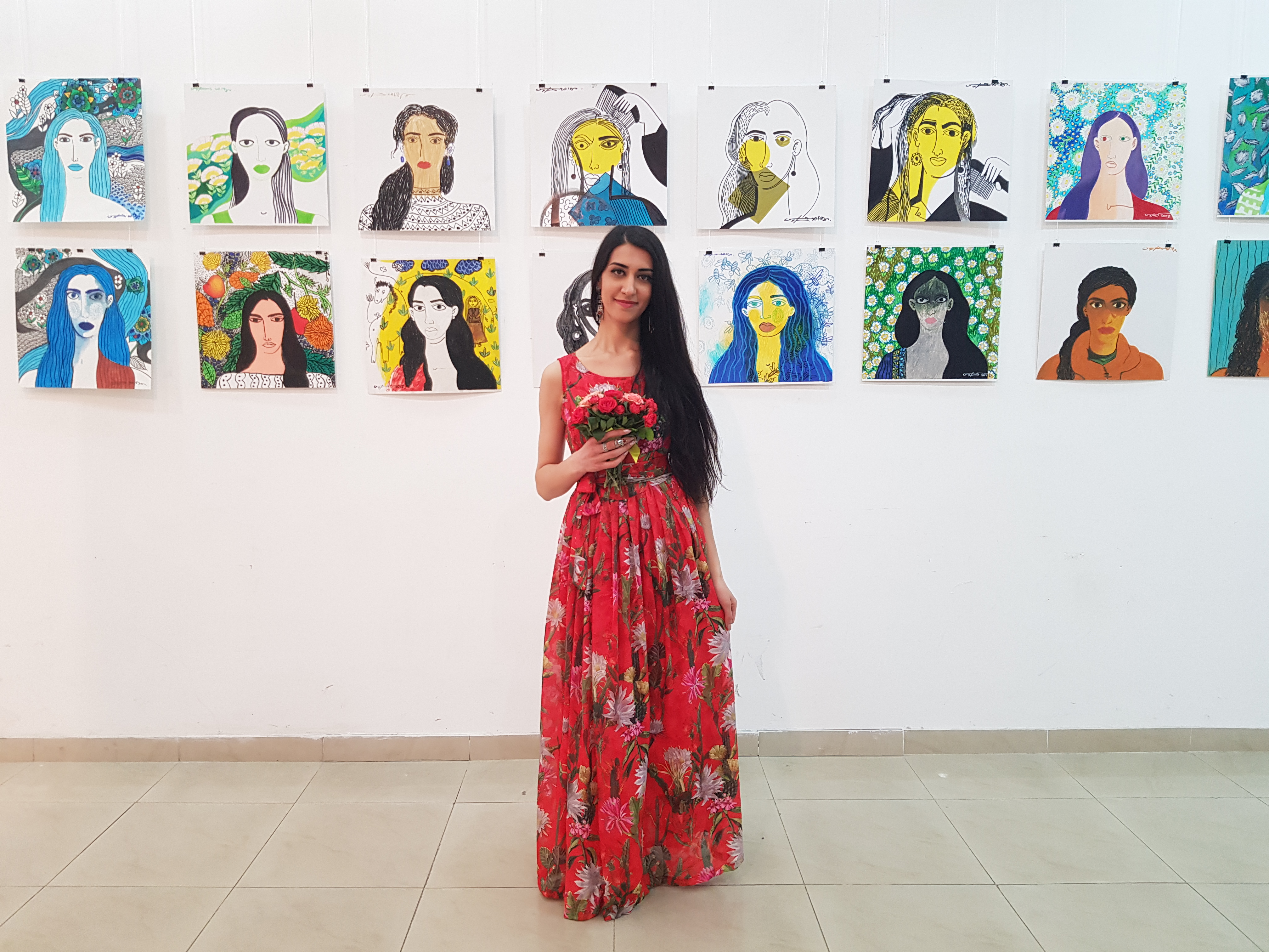 Mariam Galstyan's exhibition at AUoA